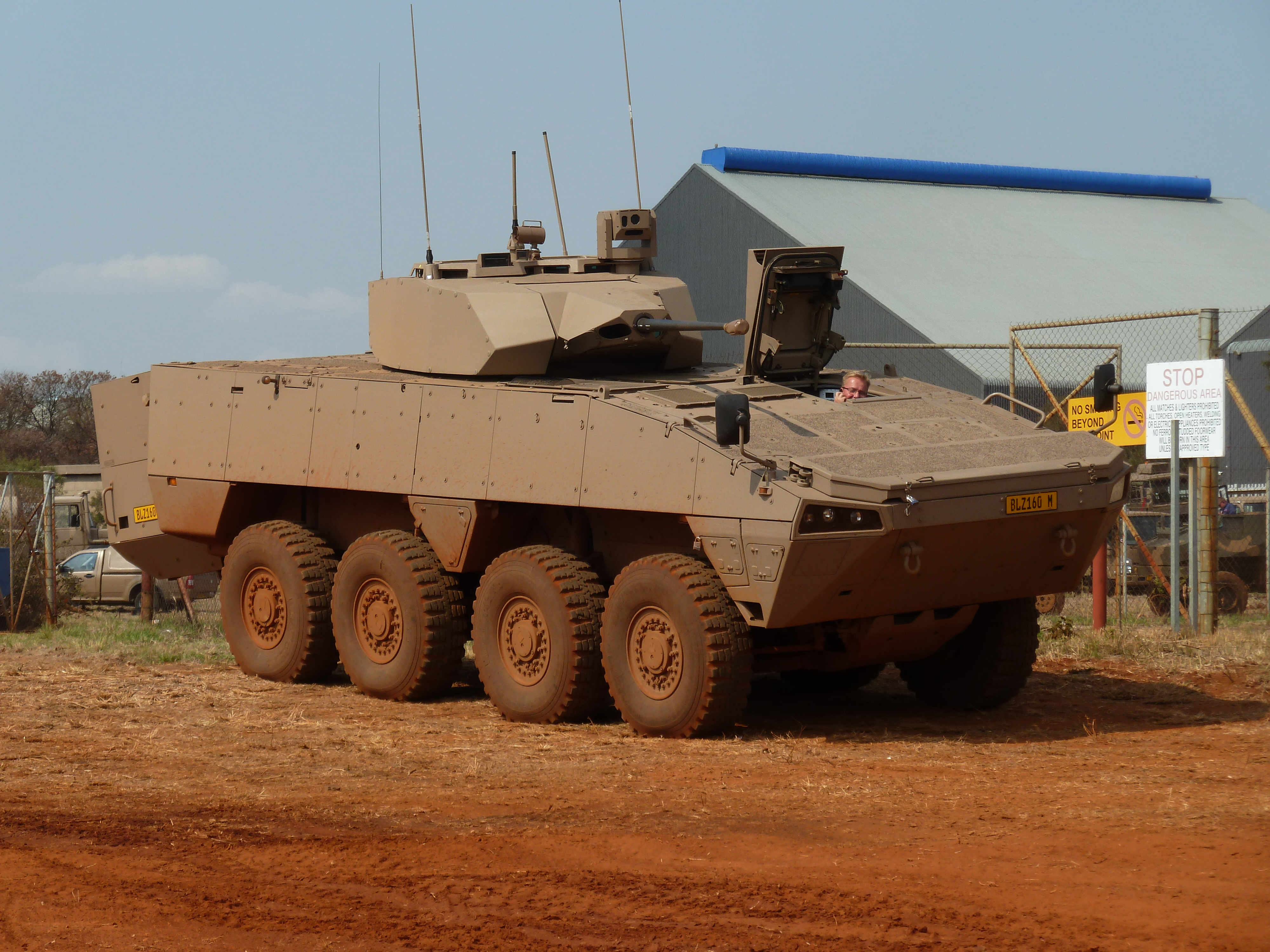 Badger ICV at Waterkloof AFB, queuing to depart on short demonstration circuit ↑ Denel PMP ready to produce 30 x 173 mm ammunition for Badger ICV